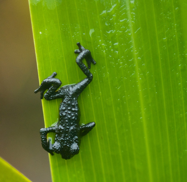 Roraima Black Frog. Photo taken in Canaima National Park in Venezuela